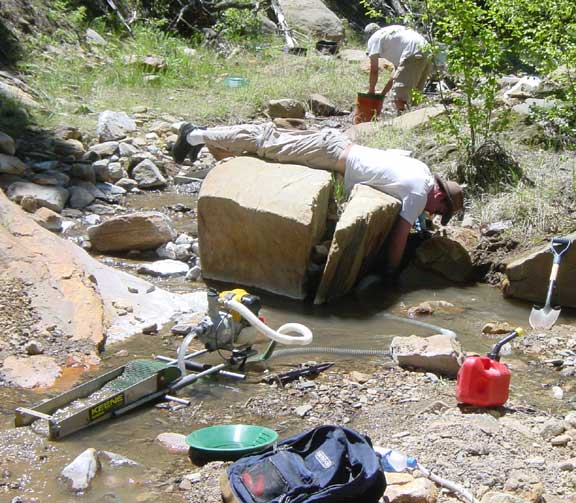 Hunting for gold nuggets, Gilpin Co CO